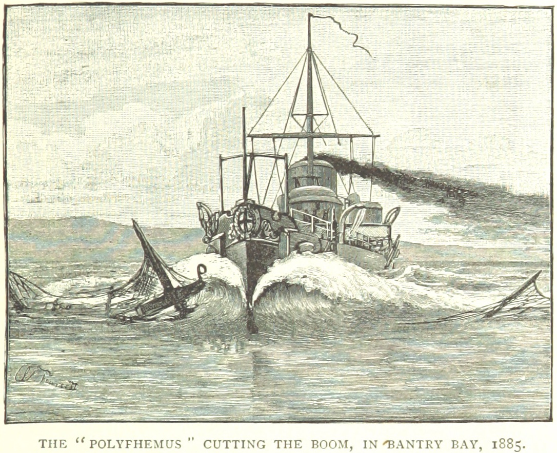 The experimental HMS Polyphemus crashes through a boom in Bantry Bay in 1885.